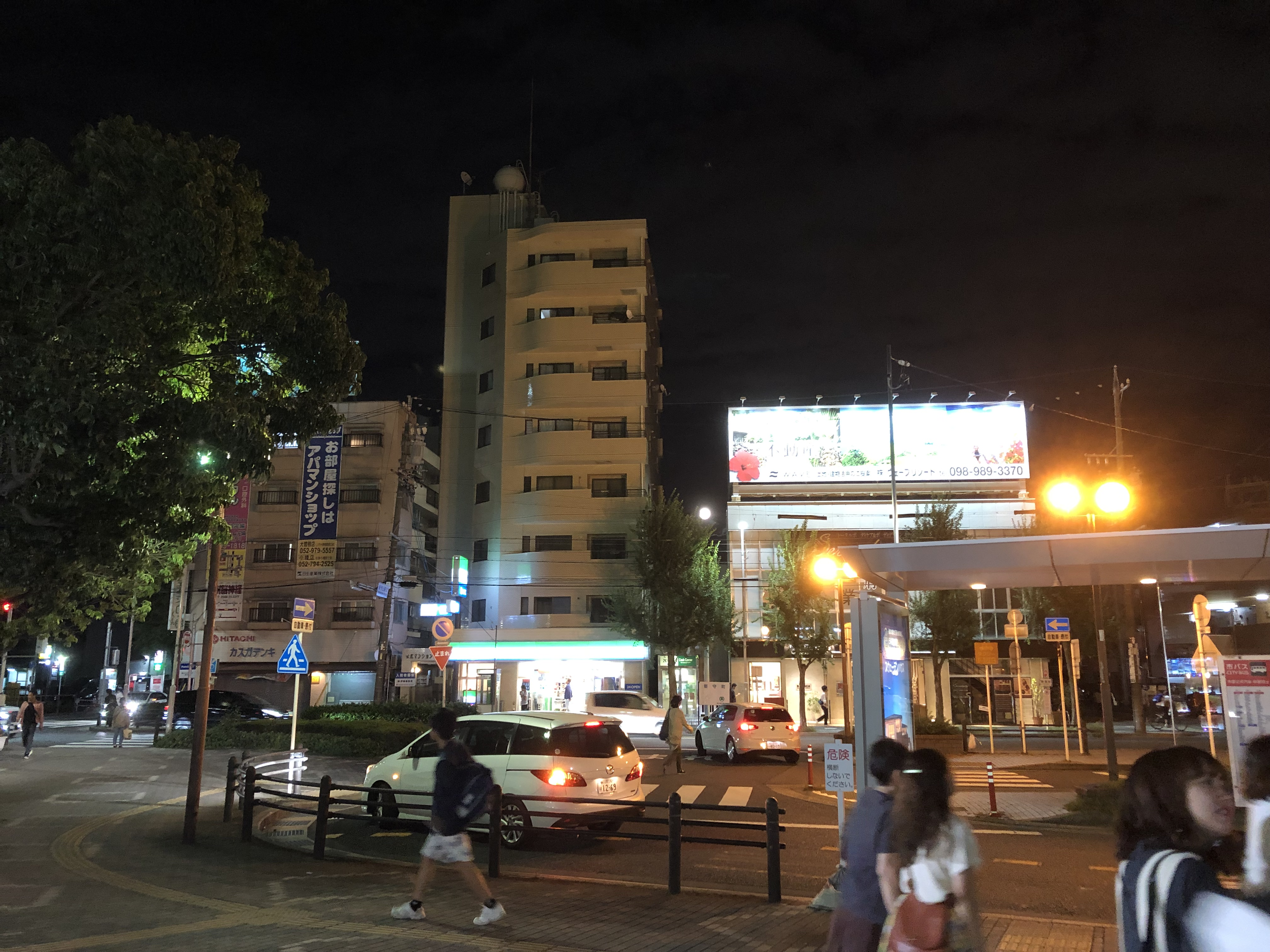 ShinmoriyamaStation EastGate